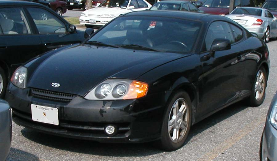 2003-2006 Hyundai Tiburon photographed in USA.